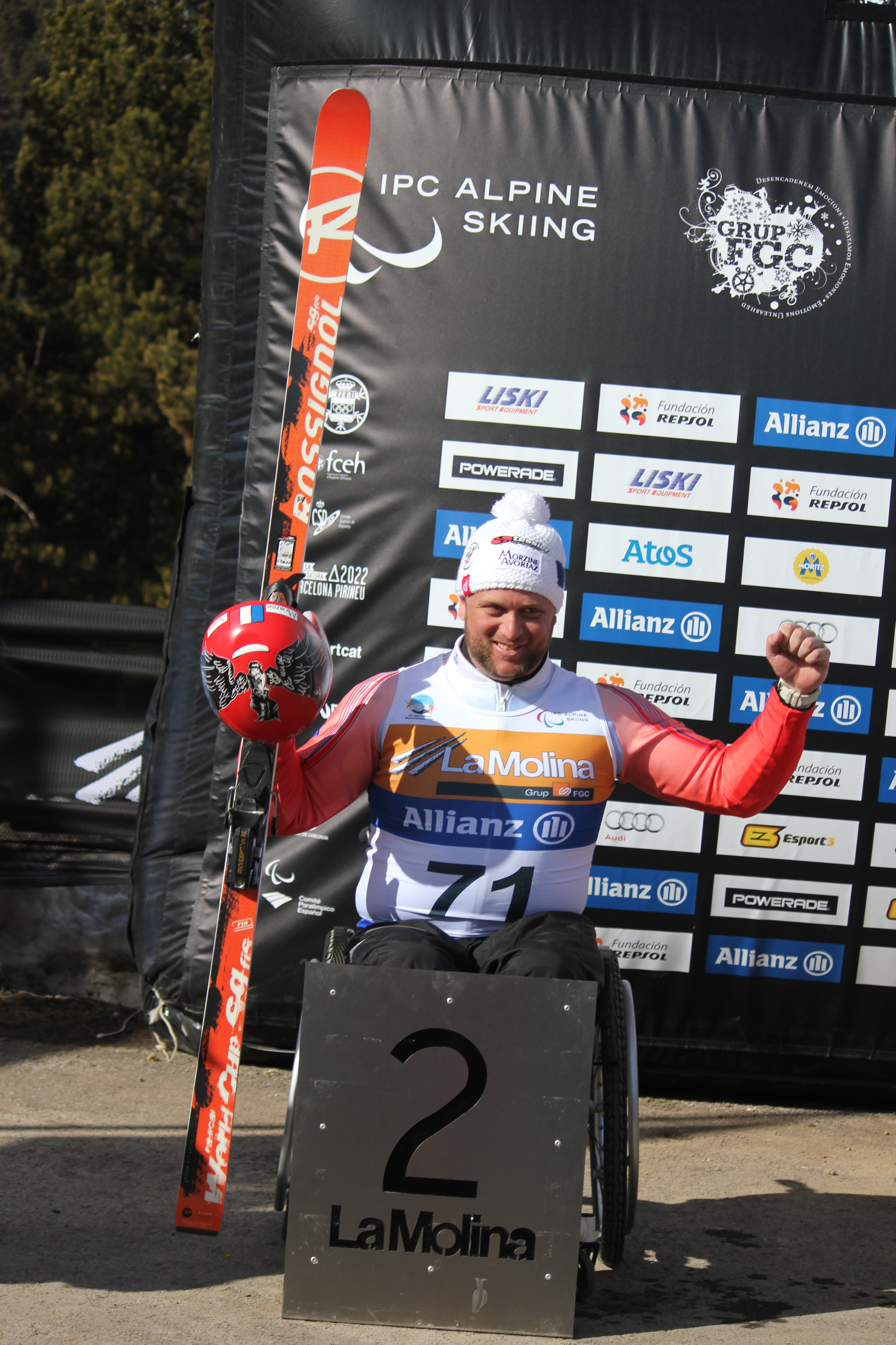 Yohann Taberlet. 2013 IPC Alpine World Championships award ceremonies.